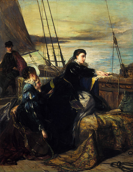 Mary Queen of Scots' farewell to France